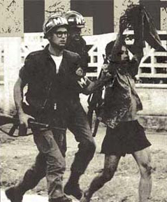 Cpl. George Moyer and Spec. John Singer march a blood-splattered Viet Cong captive away from the U.S. Embassy in Saigon.